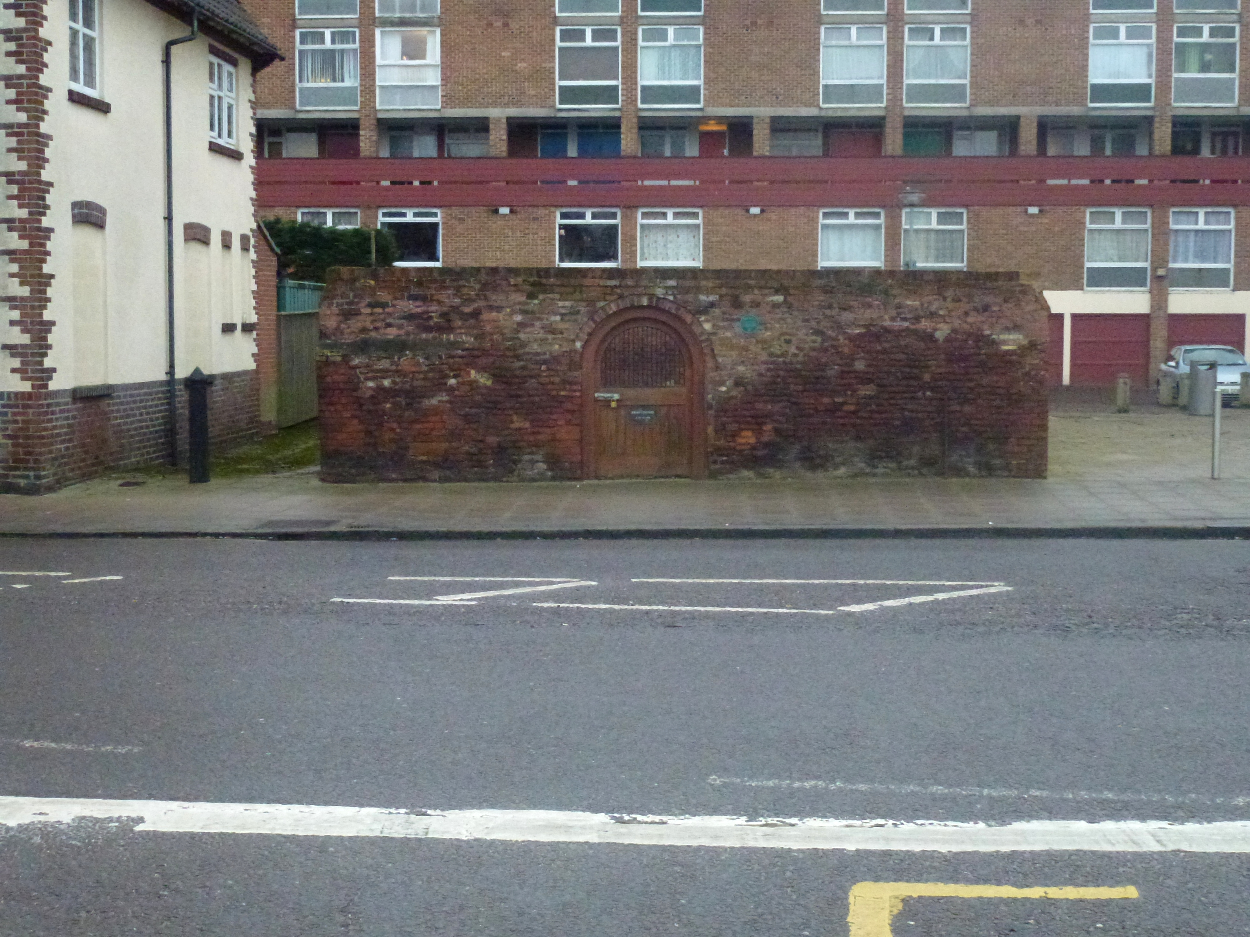 Jewish cemetery on the Millfleet, Kings Lynn.